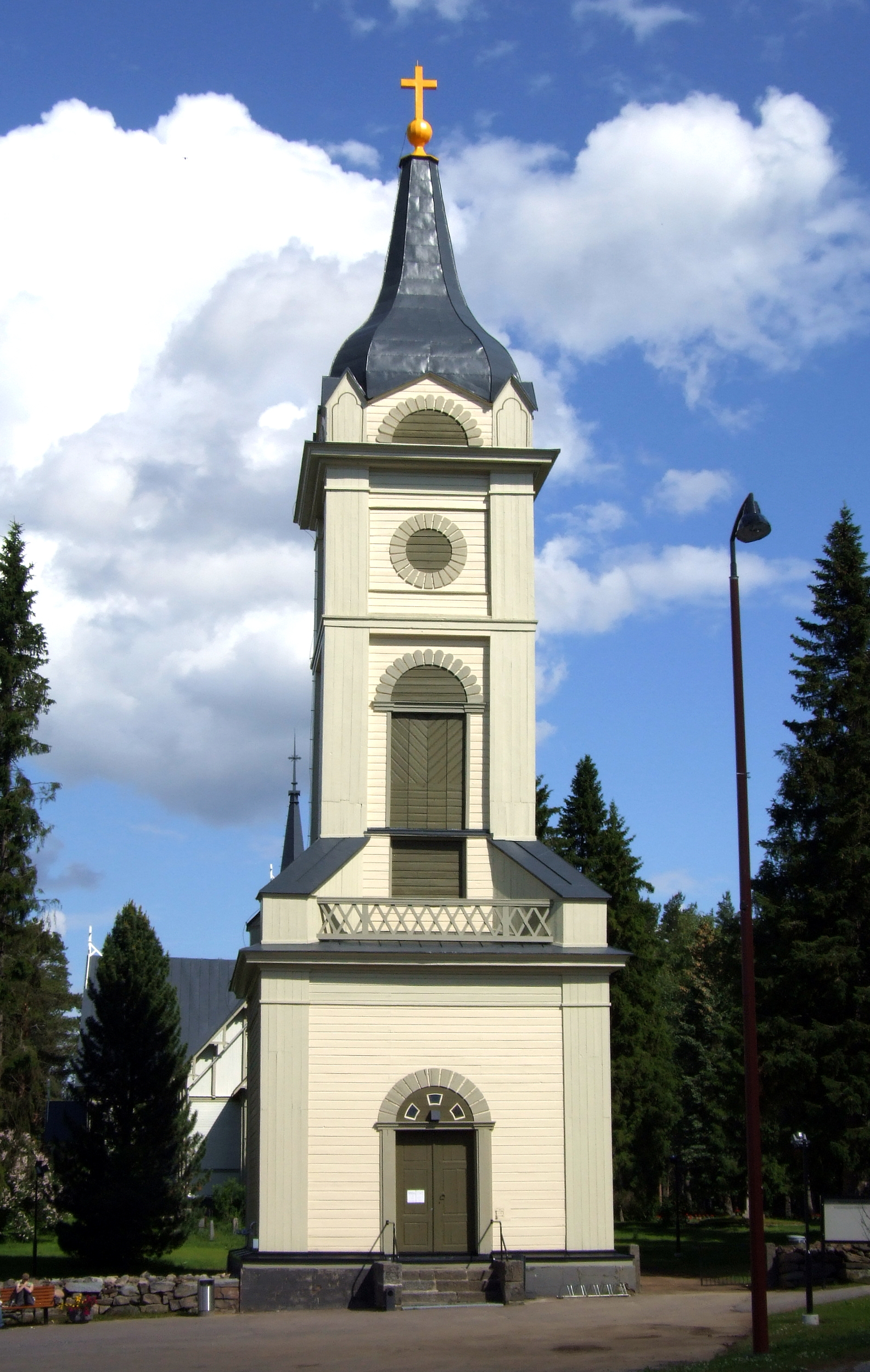 The Pulkkila Church Bellfry. Completed in 1843. Designed by architect Carl Ludvig Engel.